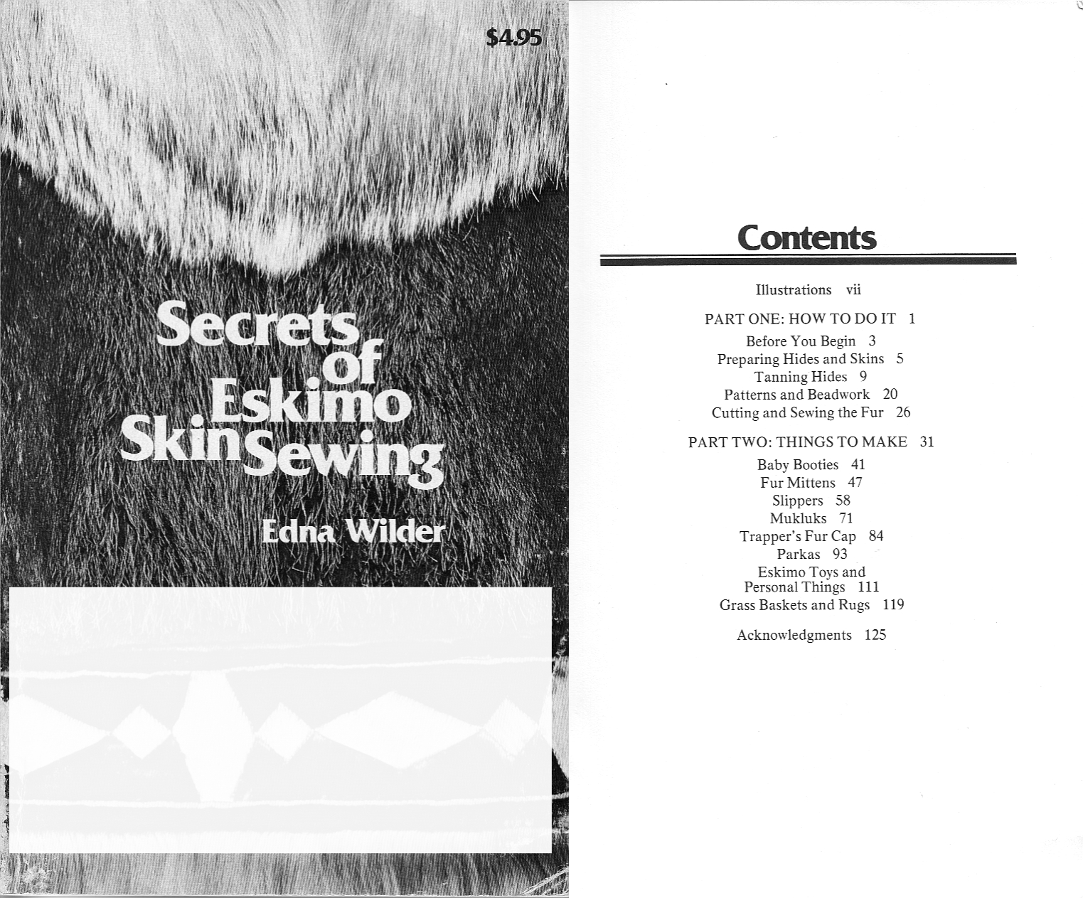 Edna Wilder: Secrets of Eskimo Sewing. Book cover (for copyright reasons partially lightened) and content. ISBN 0-88240-026-6 Alaska Northern Publishing Company, Anchorage, Alaska, 1976. Paperback, 125 pages